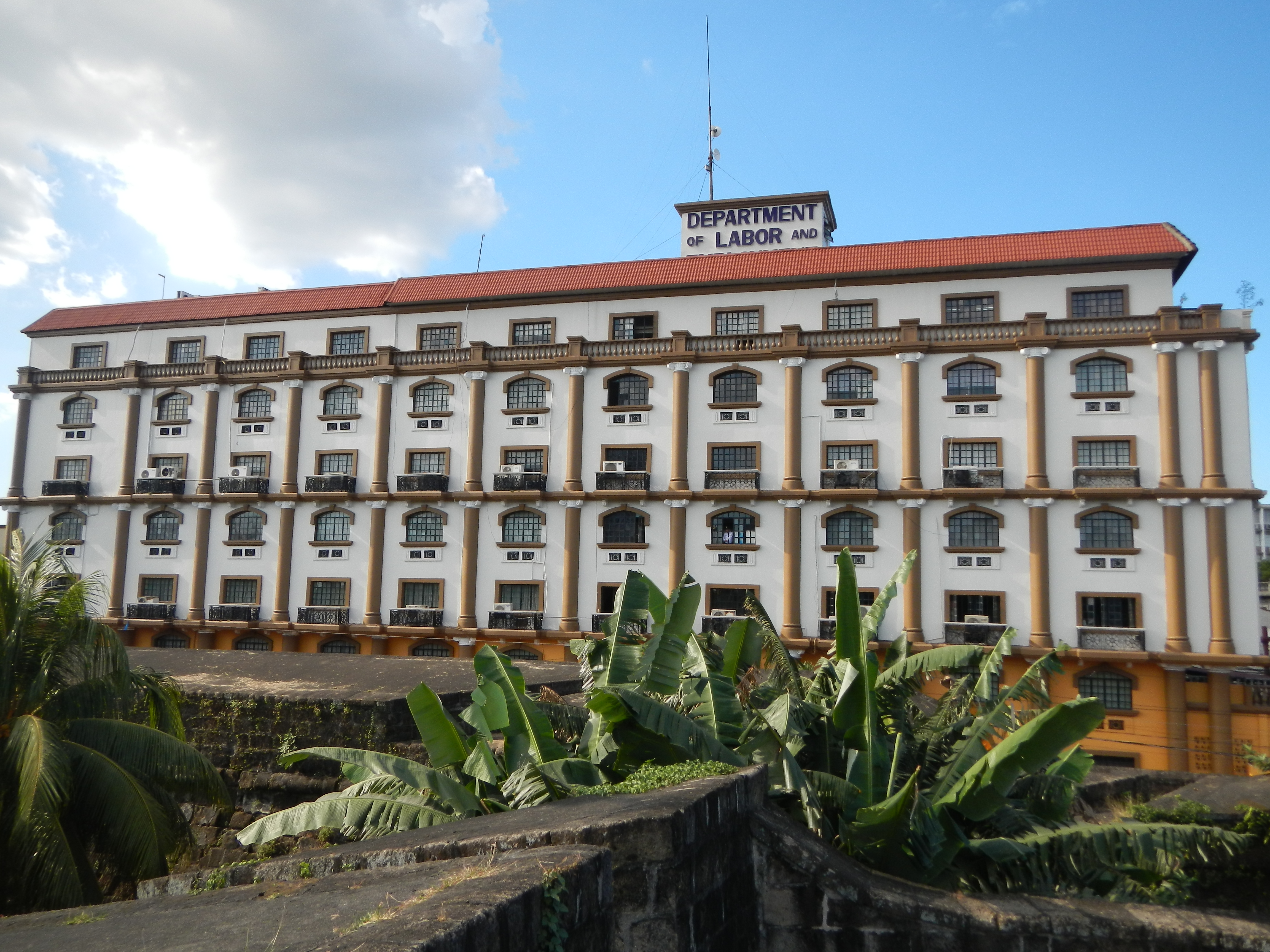 Upload Wizard photos of - the - Department of Labor and Employment (Philippines) [1] DOLE Building, Muralla corner General Luna Streets, Intramuros, Manila[2] under Rosalinda Baldoz, Secretary [3] [4] was founded on December 8, 1933 via the Act No. 4121 by the Philippine Legislature. It was renamed as Ministry of Labor and Employment in 1980. The agency was renamed as a Department after the 1986 EDSA Revolution in 1986 Secretary of Labor and Employment (Philippines)[5] Fernanda Salcedo Balboa (b. October 8, 1902 - d. May 24, 1999), a social worker and one of the most civic-minded women of the Philippines, [6] was the Founder of the Reapers' Club in Tayug, Pangasinan. beside it is the Manila Bulletin[7] List of Cultural Properties of the Philippines in Metro Manila [8] List of historical markers in the Philippines[9] - Intramuros Golf Club, Intramuros City Walls.